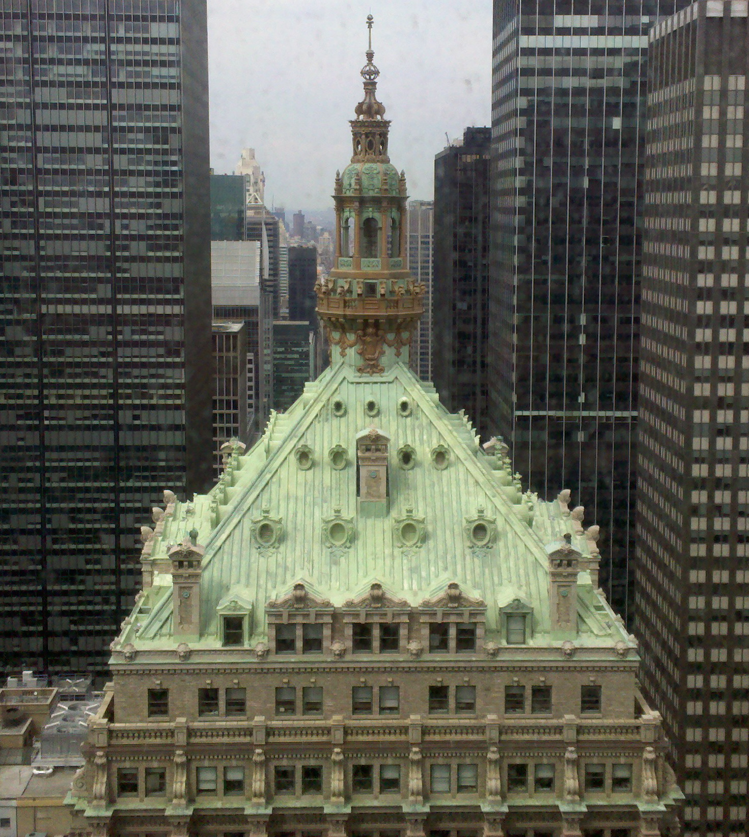 A cropped photo of a picture I took of the tower of the New York Central Building.